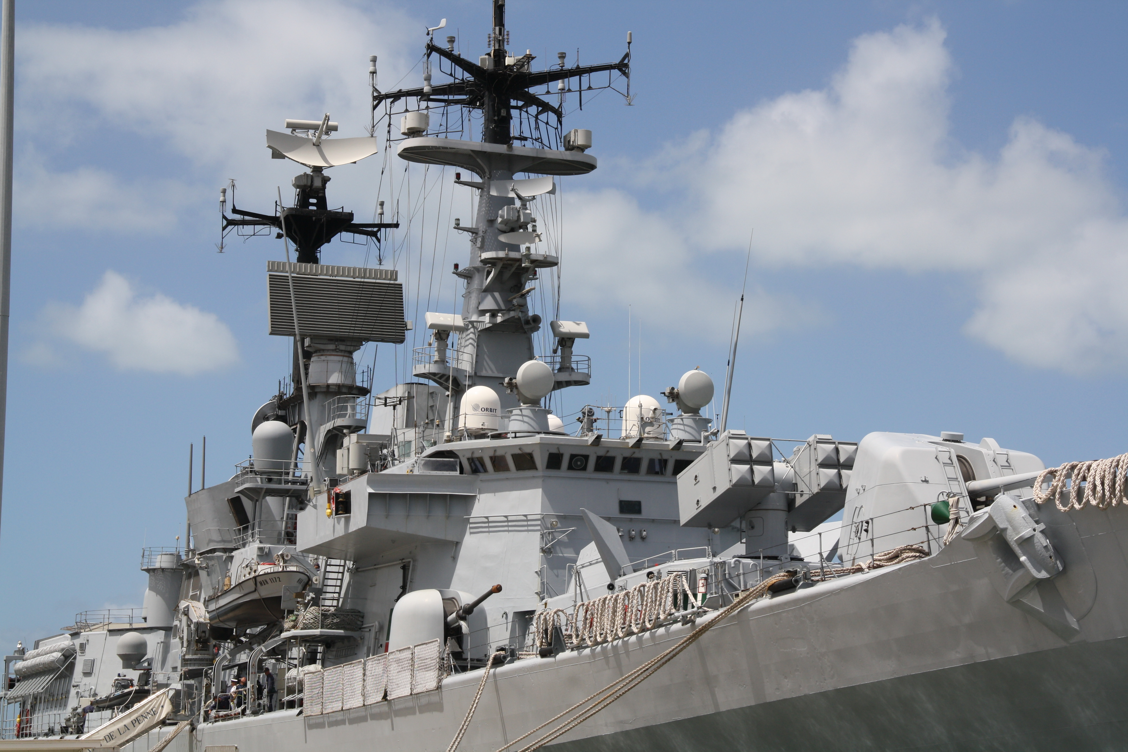 Italy Navy: Marina Militare Type: Destroyer Keel laid: 20 January 1988 Year of construction: 29 October 1989 Shipyard: Fincantieri, Riva Trigoso Displacement: 5560 t Length overall: 147.7 m Breadth: 16.1 m Draught: 5 m Speed: 31 knots Crew: 350